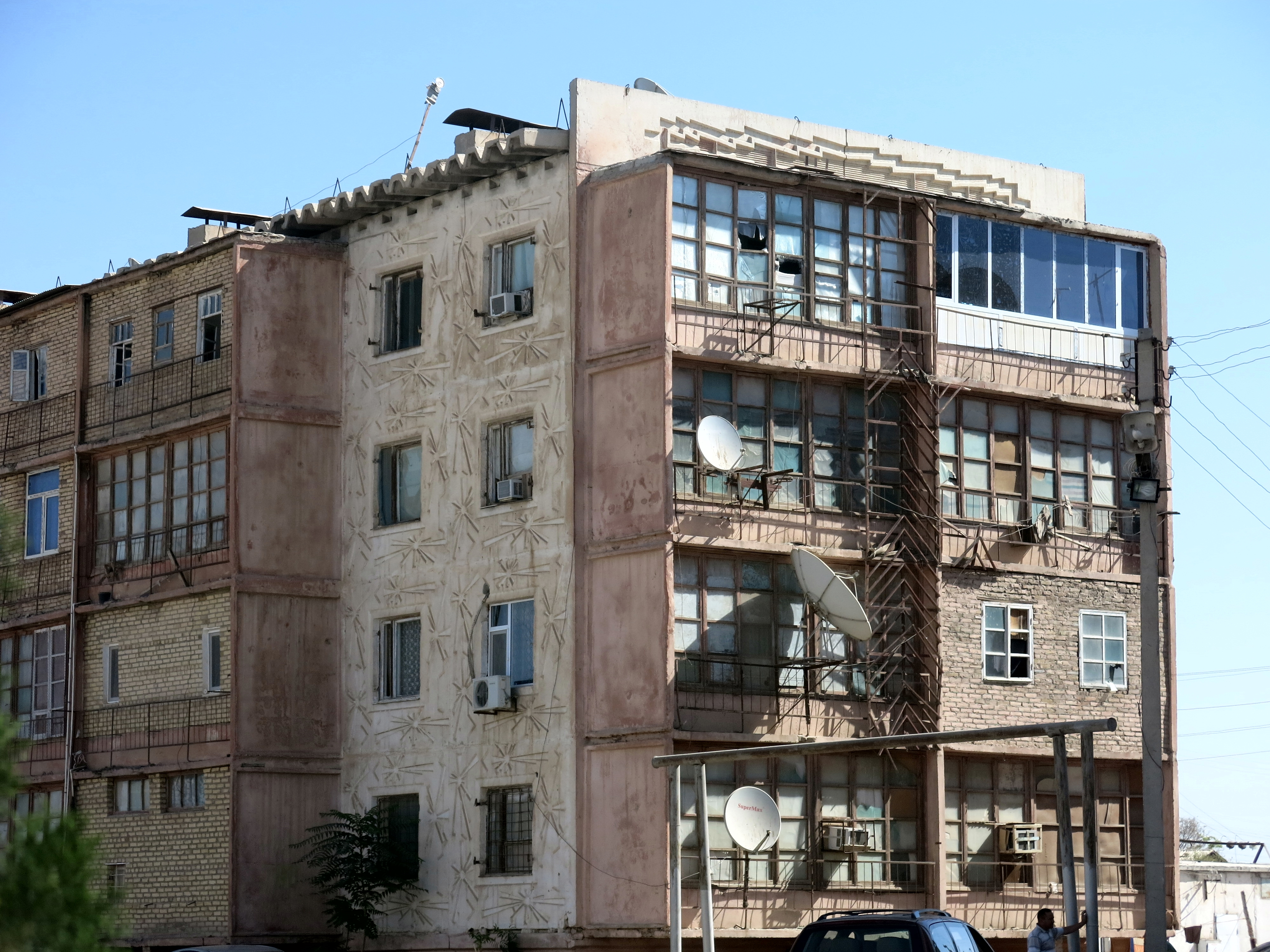 Housing block in face of the post office in the city center of Kerki in Eastern Turkmenistan